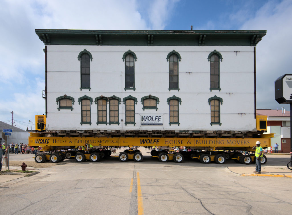 Wolfe House & Building Movers relocated the Cedar Valley Seminary building on June 24, 2016.